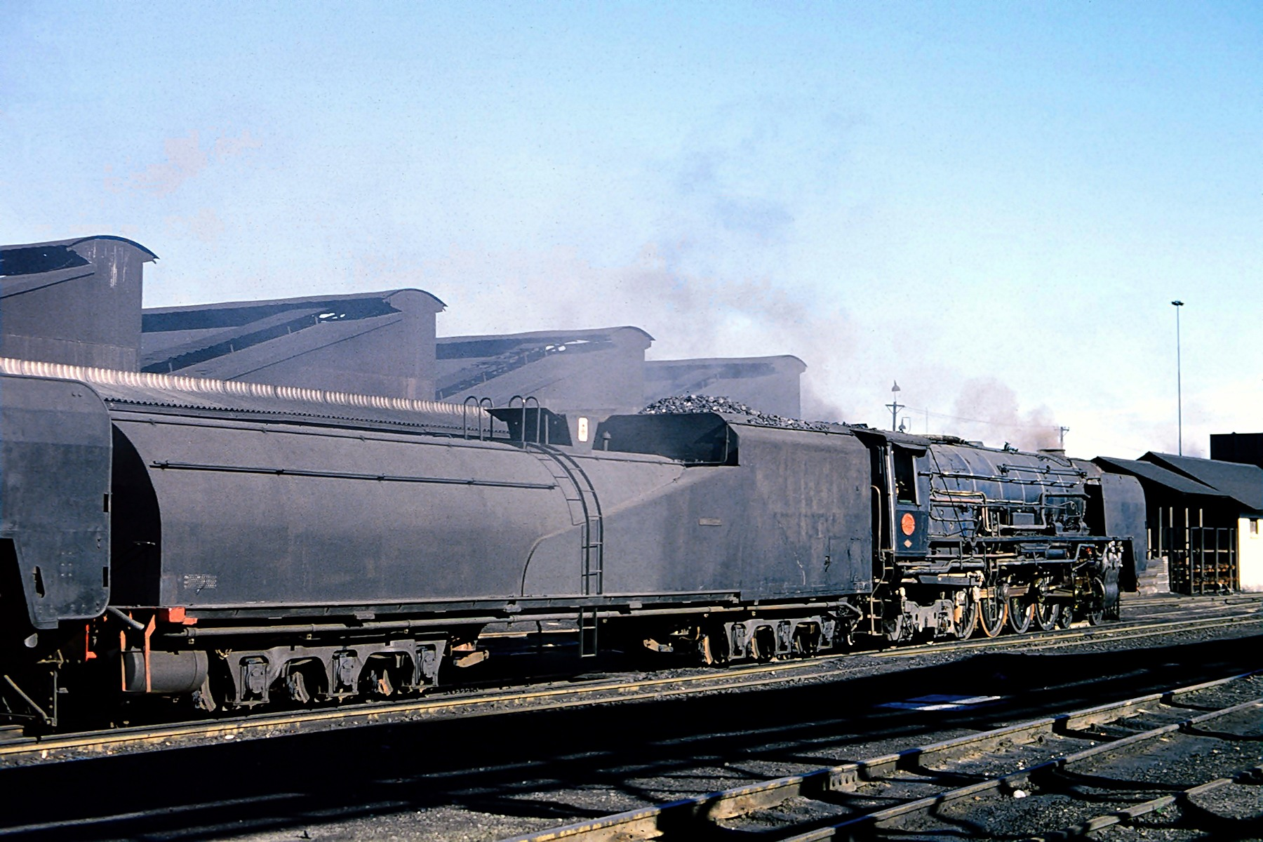 25NC 3465, a formerly condensing steam locomotive, connected with its rebuilt tender at De Aar Loco Depot.